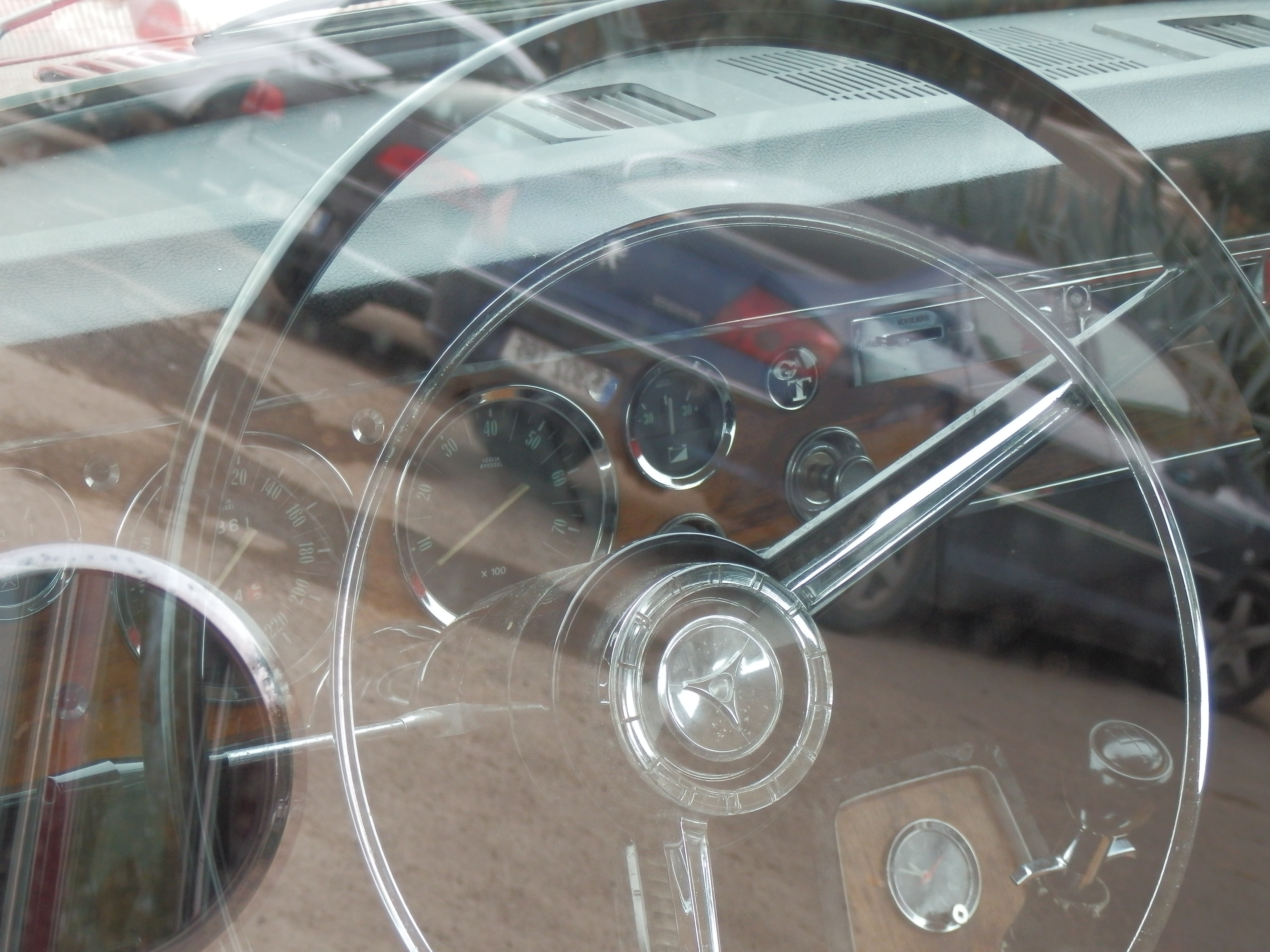 1969 Dodge Dart GT built by Barreiros Diésel S.A in Spain. Gasoline motor. 6 cylinder. 163 HP.